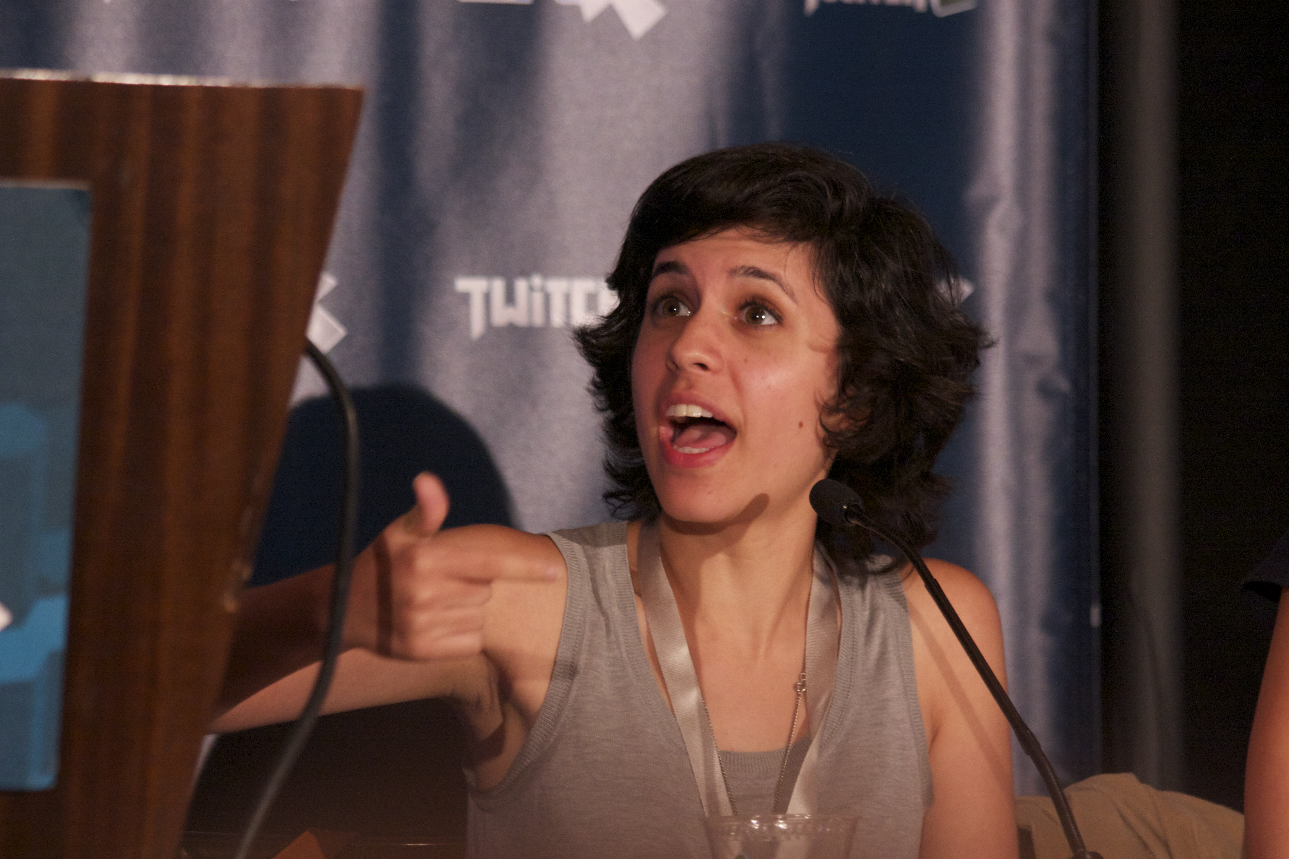 Ashly Burch on the "You Game Like A Girl: Tales of Trolls & White Knights" panel at PAX Prime 2013.